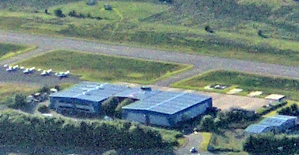 Aerial shot of Cumbernauld Airport main building, with small part of runway visible.